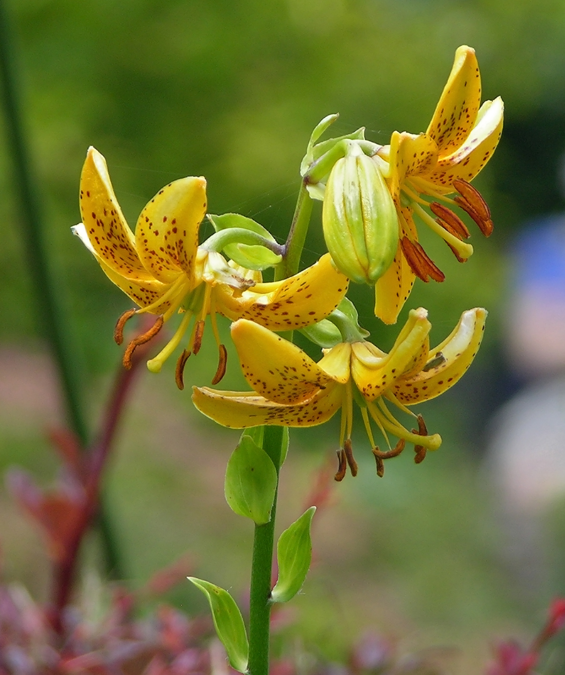 Picture of the Hanson's Lilyen (Lilium hansonii en ). Photo taken in the Pond at the Chanticleer Garden, where it was species identified.